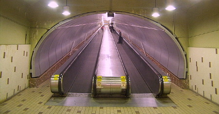 An inclined moving walkway at Beaudry metro station in Montreal.